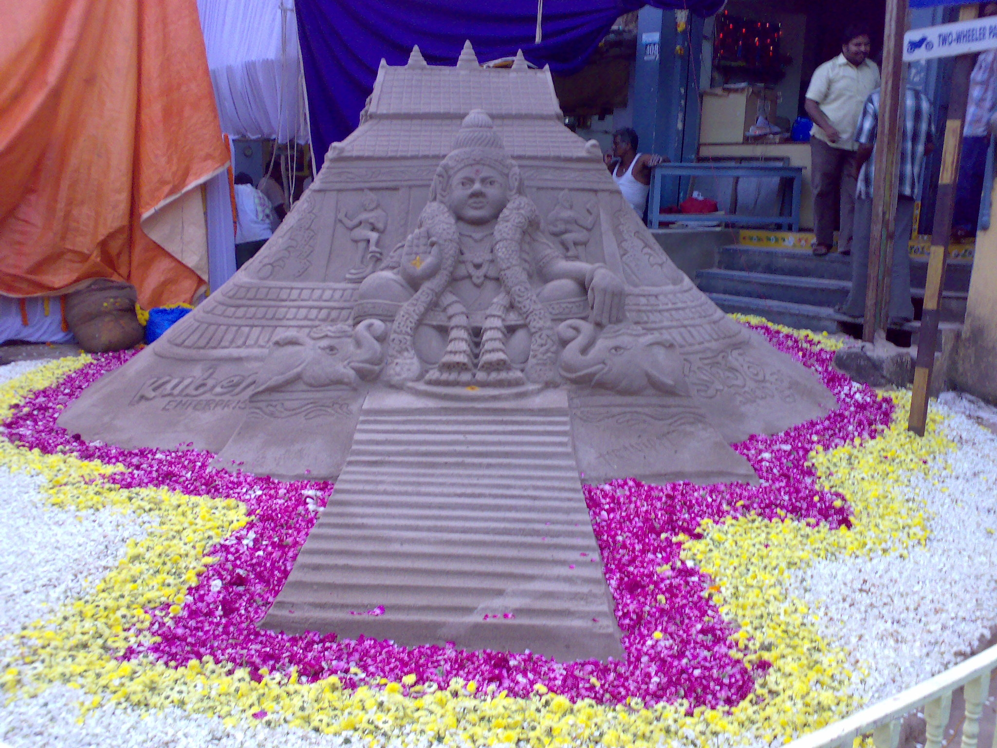 sand ayyappa by sri vasavi manikanta charitable trust.guntur